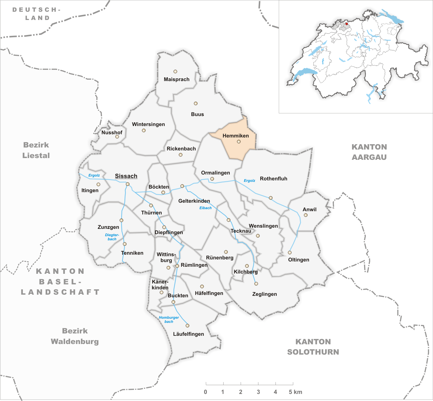 Municipality Hemmiken